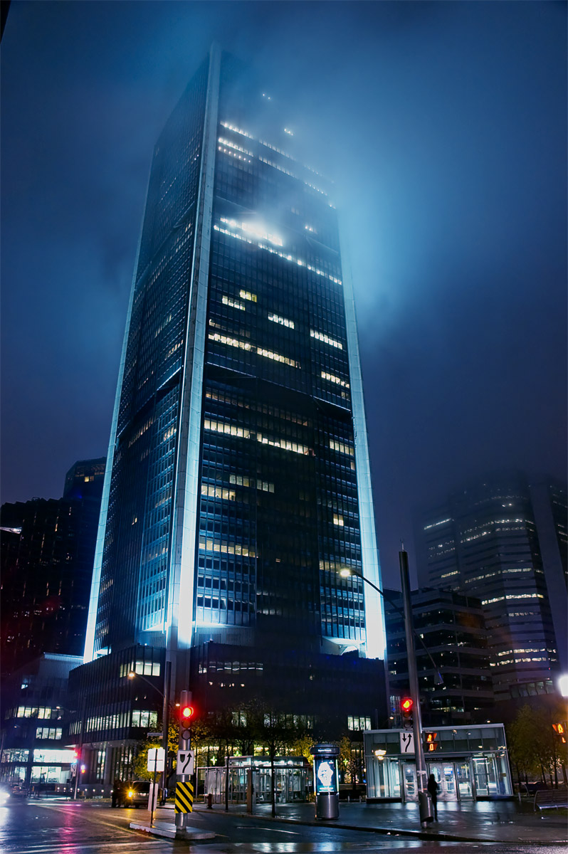 The Montreal Exchange tower at night.